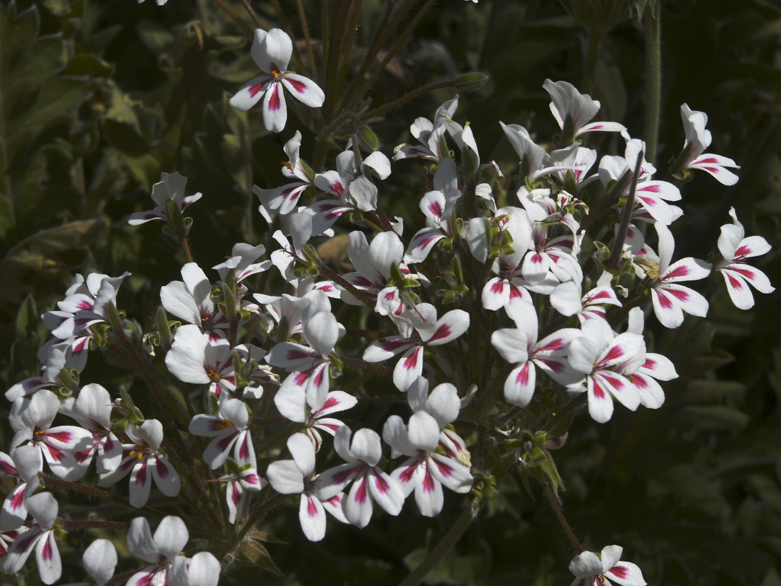 Pelargonium crithmifolium J.E. Sm., Goegap Nature Rerserve, Namaqualand, Northern Cape, South Africaf